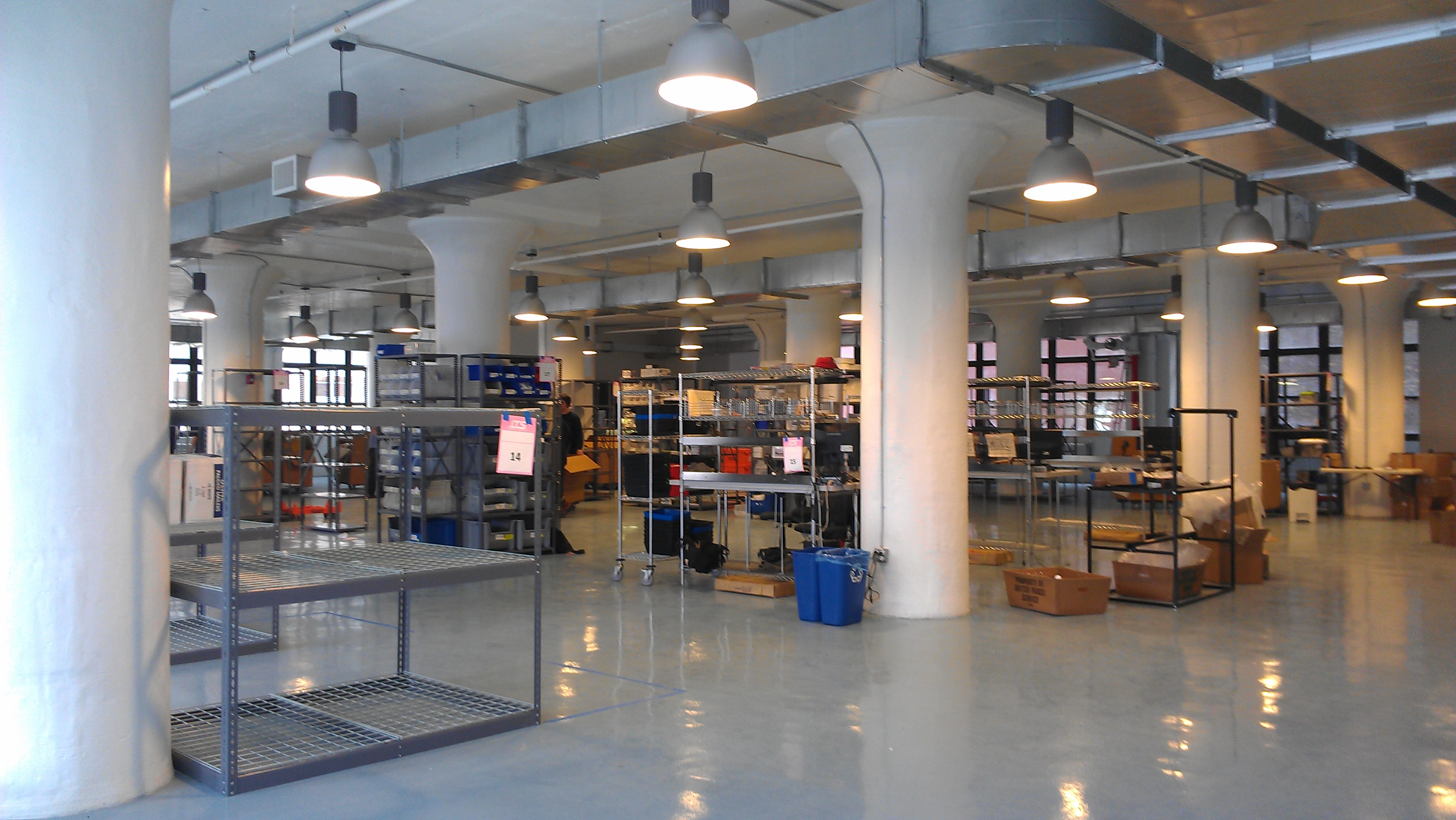 New Adafruit office - moving in